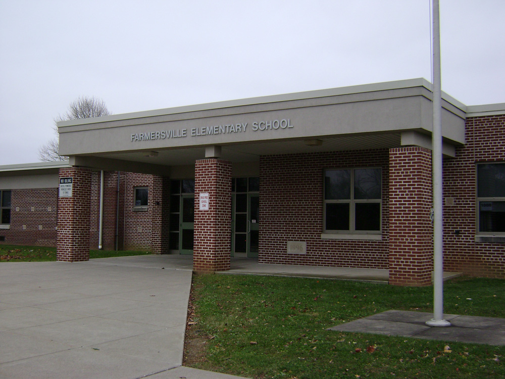 The Farmersville Elementary School in the Bethlehem Area School District in Bethlehem Township, Northampton County, Pennsylvania.